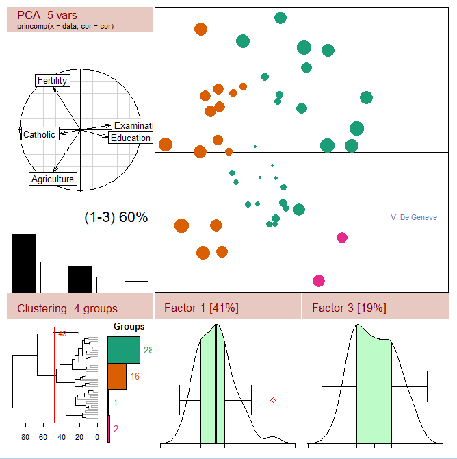 Pca plots.